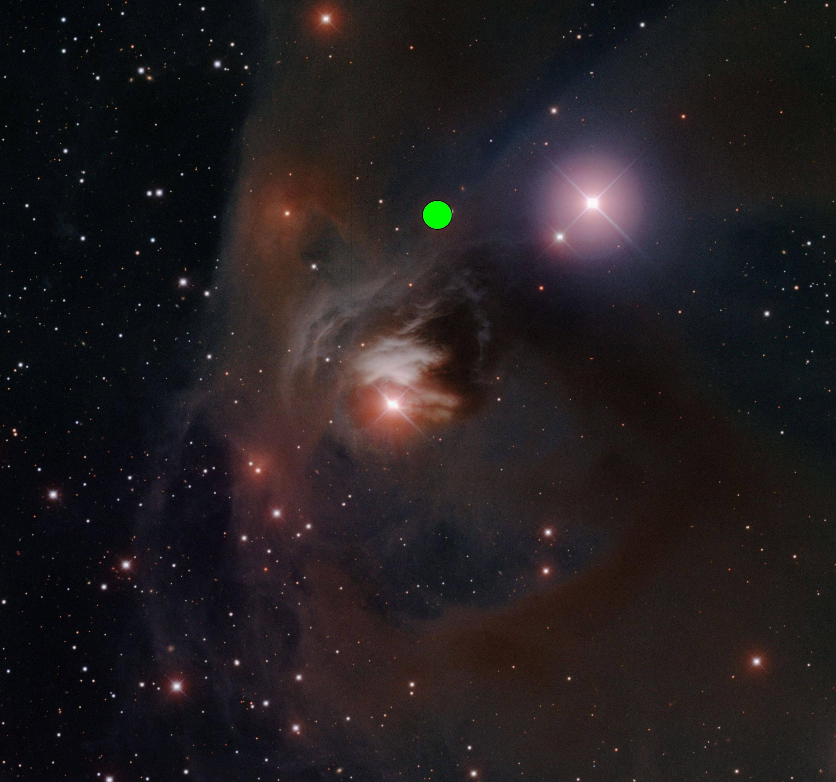 Location of NGC 1554 in Comparison to NGC 1555